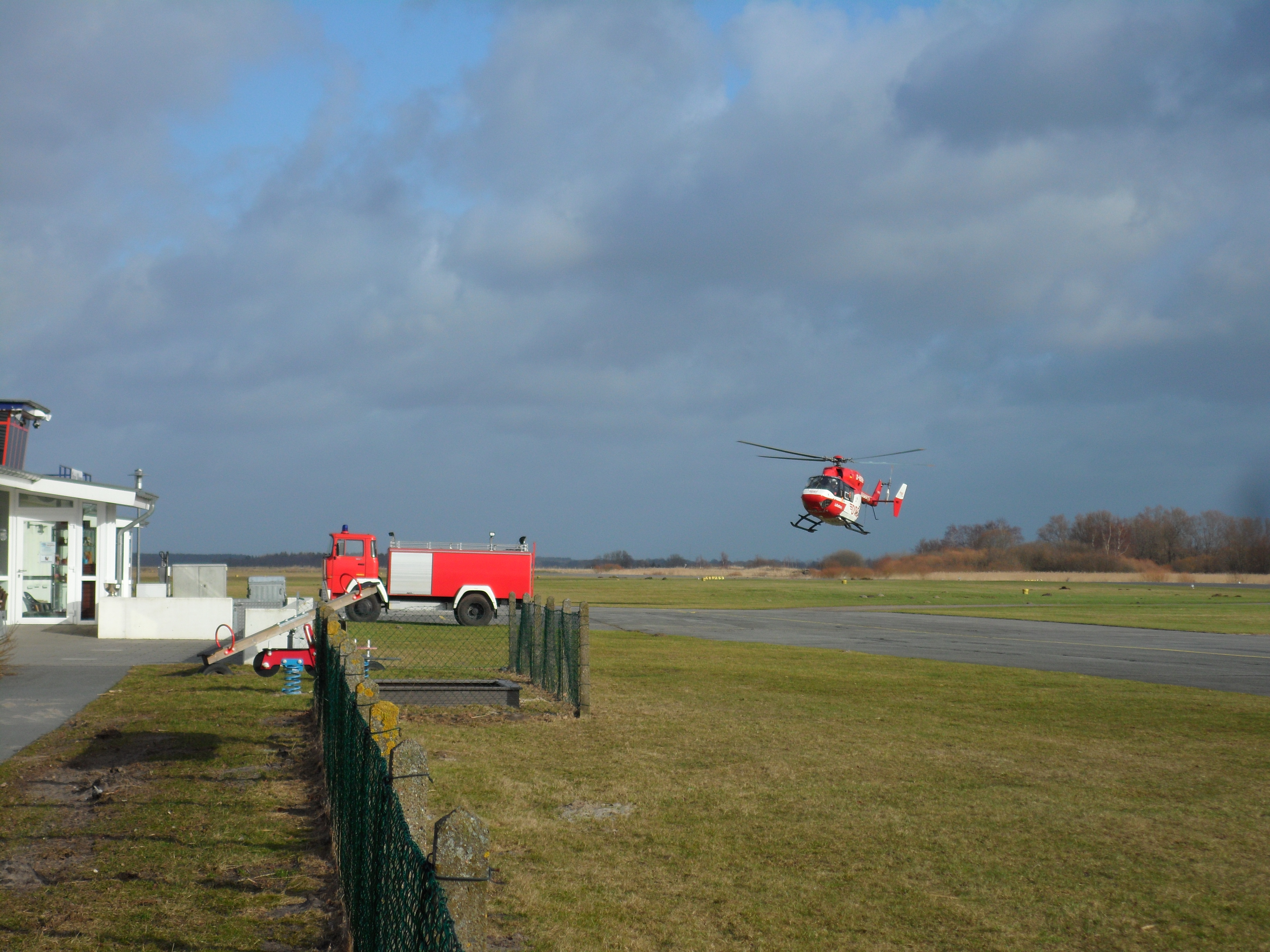 Rescue helicopter D-HDRH in Rendsburg-Schachtholm